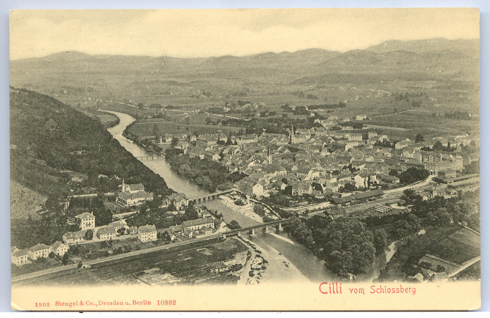 Postcard of Celje 1903.